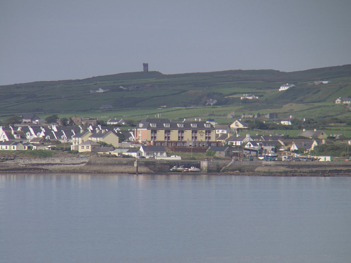 Liscannor, from Lahinch. Danny Burke